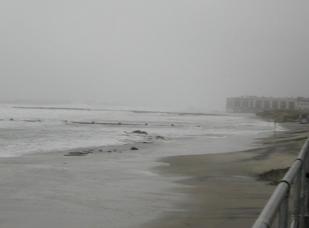 this image shows waves caused by Hurricane Isabel in September of 2003.